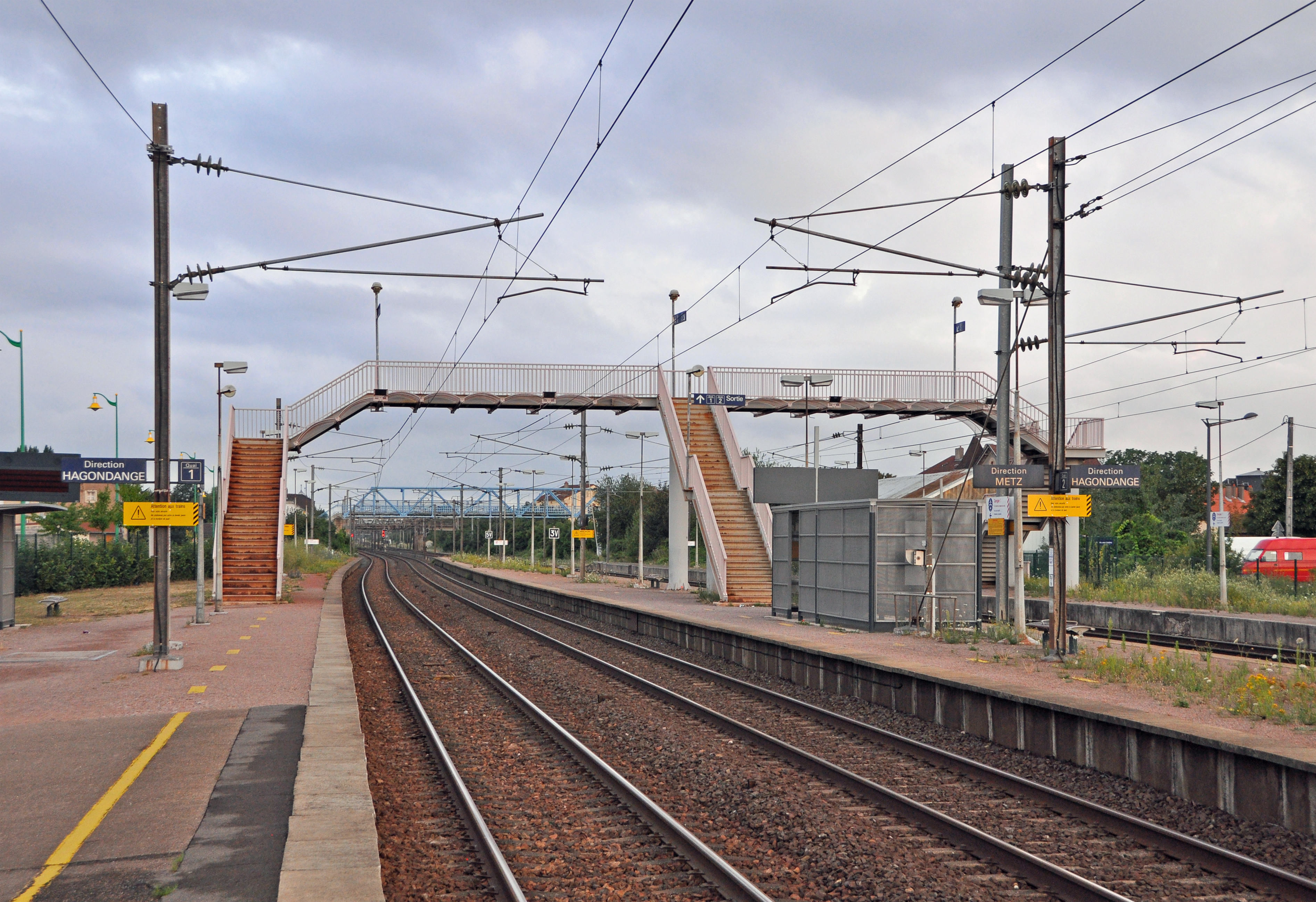 Maizières-lès-Metz (France): Railway station - the platforms